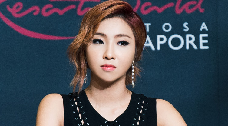 This is a photo of Minzy at the YG Family press conference in Singapore in 2014